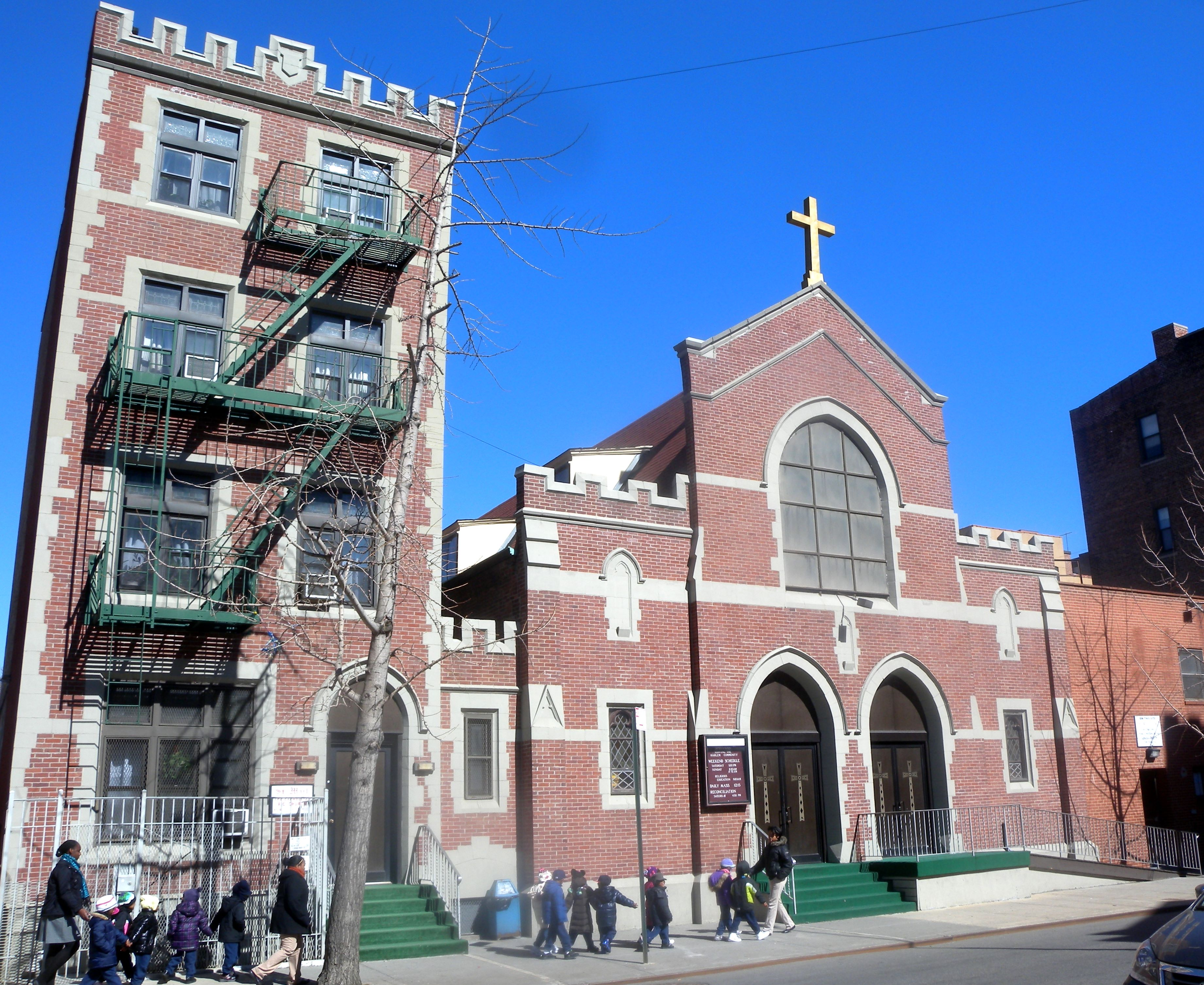 Looking northeast across 138th St at St Mark's on a sunny midday.